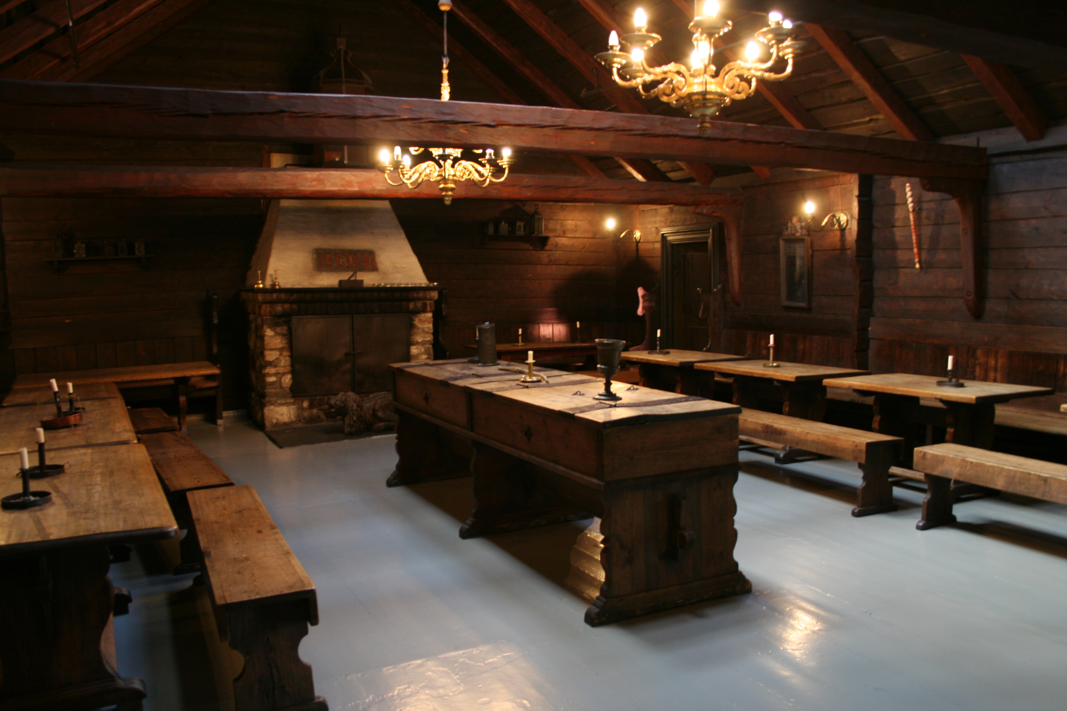 in bergen